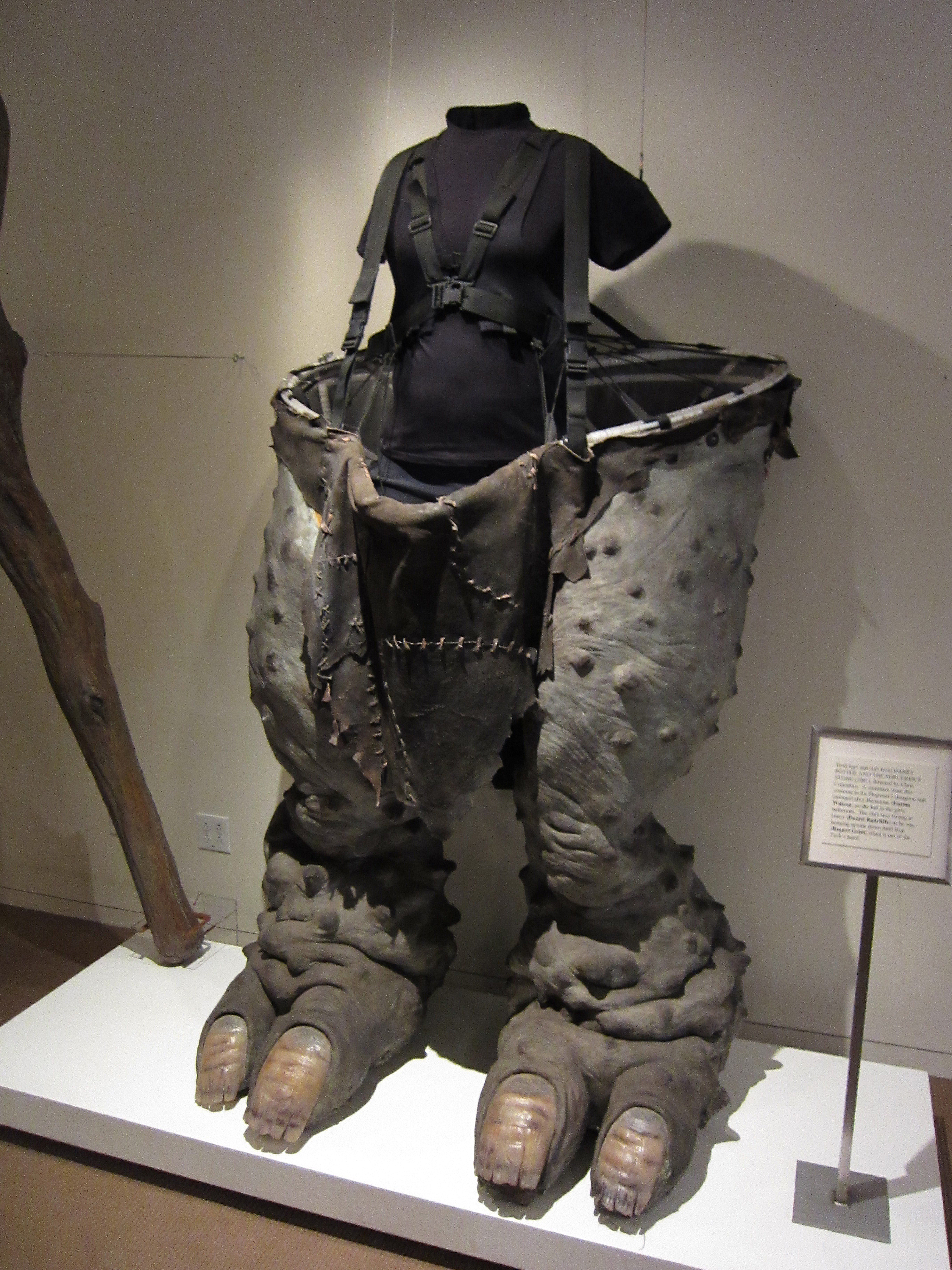 Troll legs used during production to create the Troll that chased Hermione and Harry in Harry Potter and the Philosopher's Stone displayed at Warner Bros. Studios, Burbank, , California, USA.